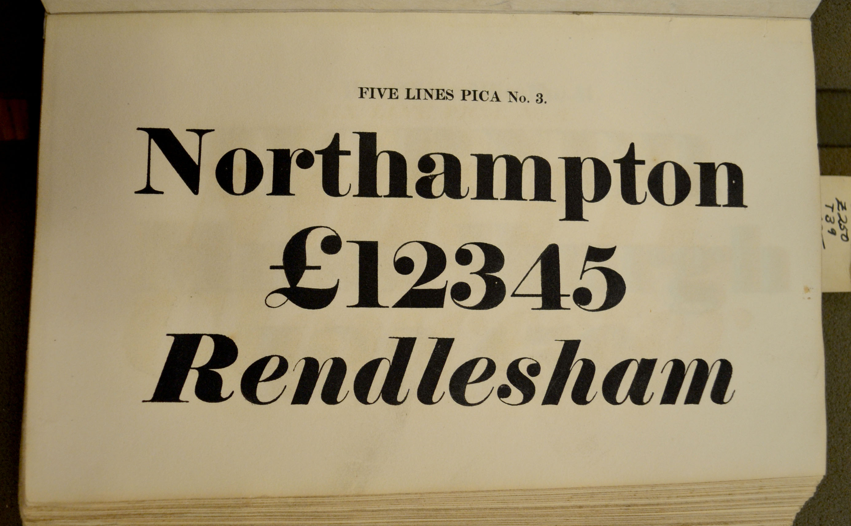 'Fat face' type from the Fann Street Foundry in London on an 1825 specimen book. This is the kind of type that would later be recreated as Victoriana.